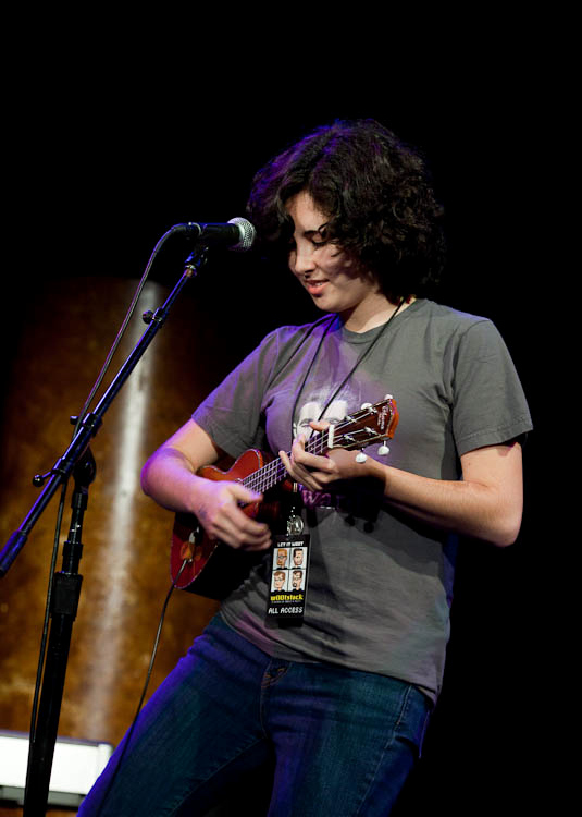 Molly Lewis at W00tstock 2.5.1 in 2010.